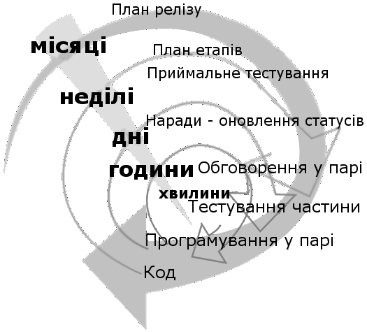 Planning and feed back loop in Extreme Programming with time frames